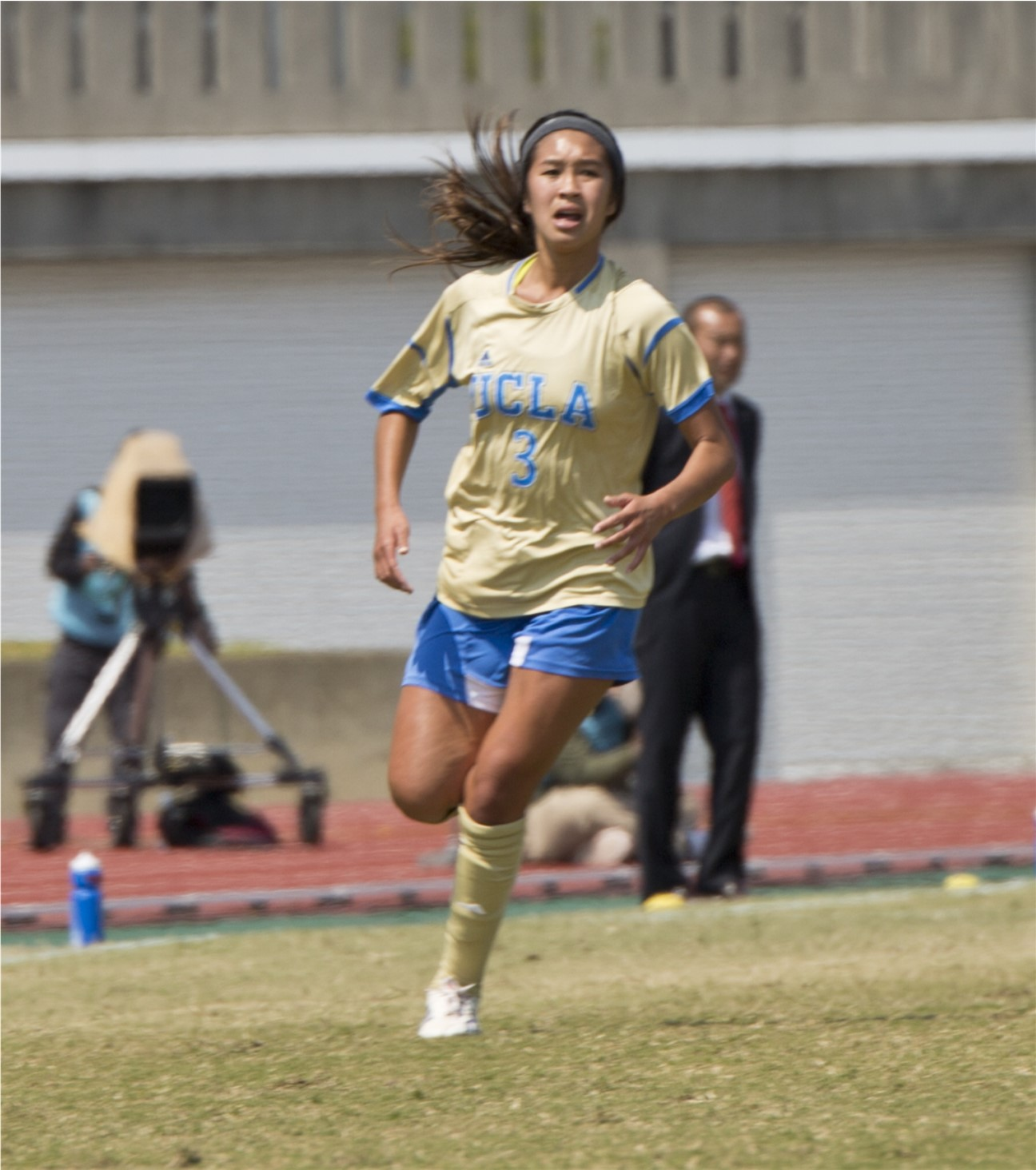 Caprice Dydasco in 2014 playing soccer in Japan with UCLA